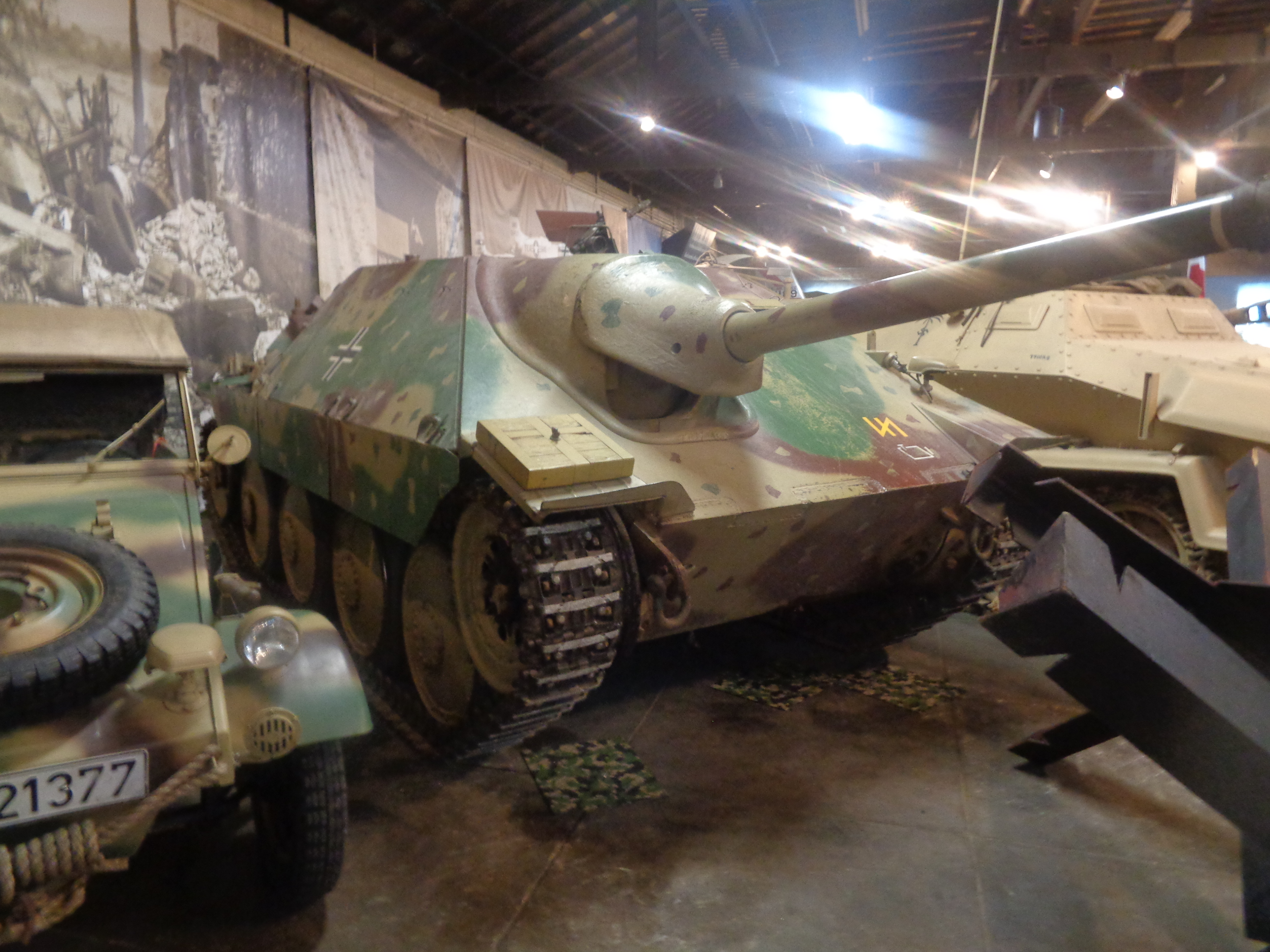 Jagdpanzer 38(t) Hetzer in the Texas Military Forces Museum